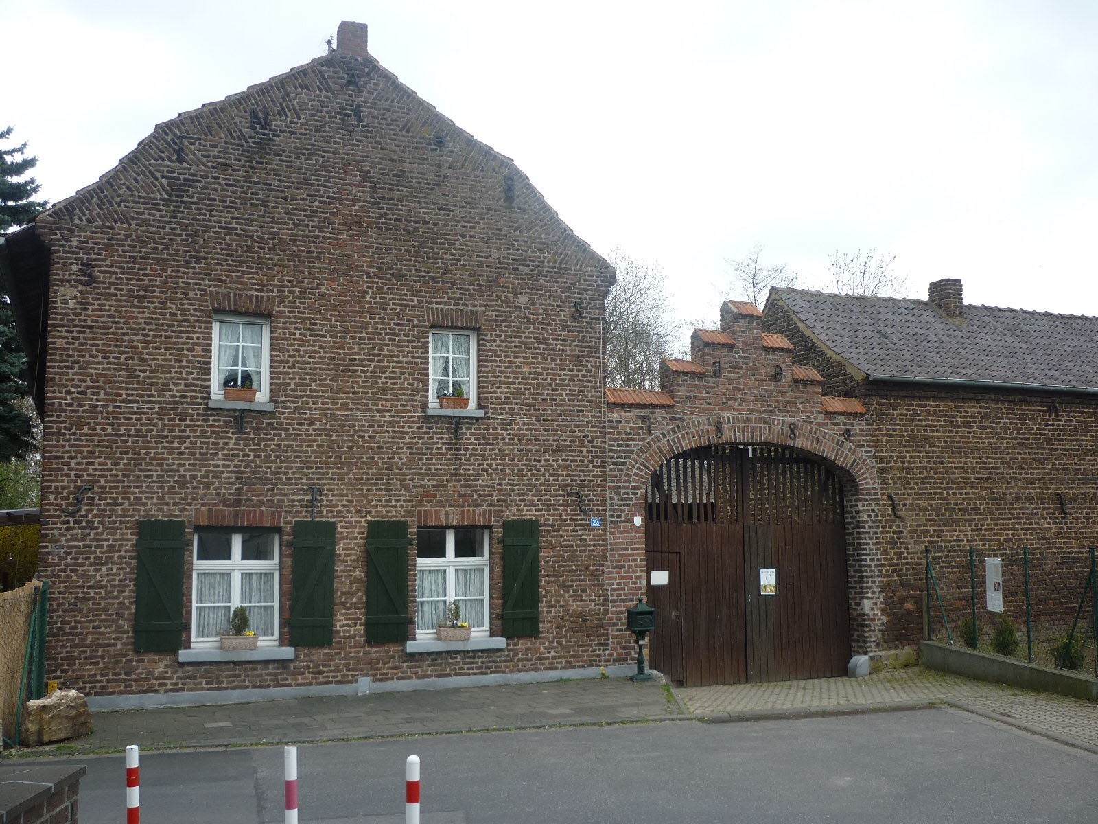 Front of old watermill in Paffendorf, part of Bergheim, Germany